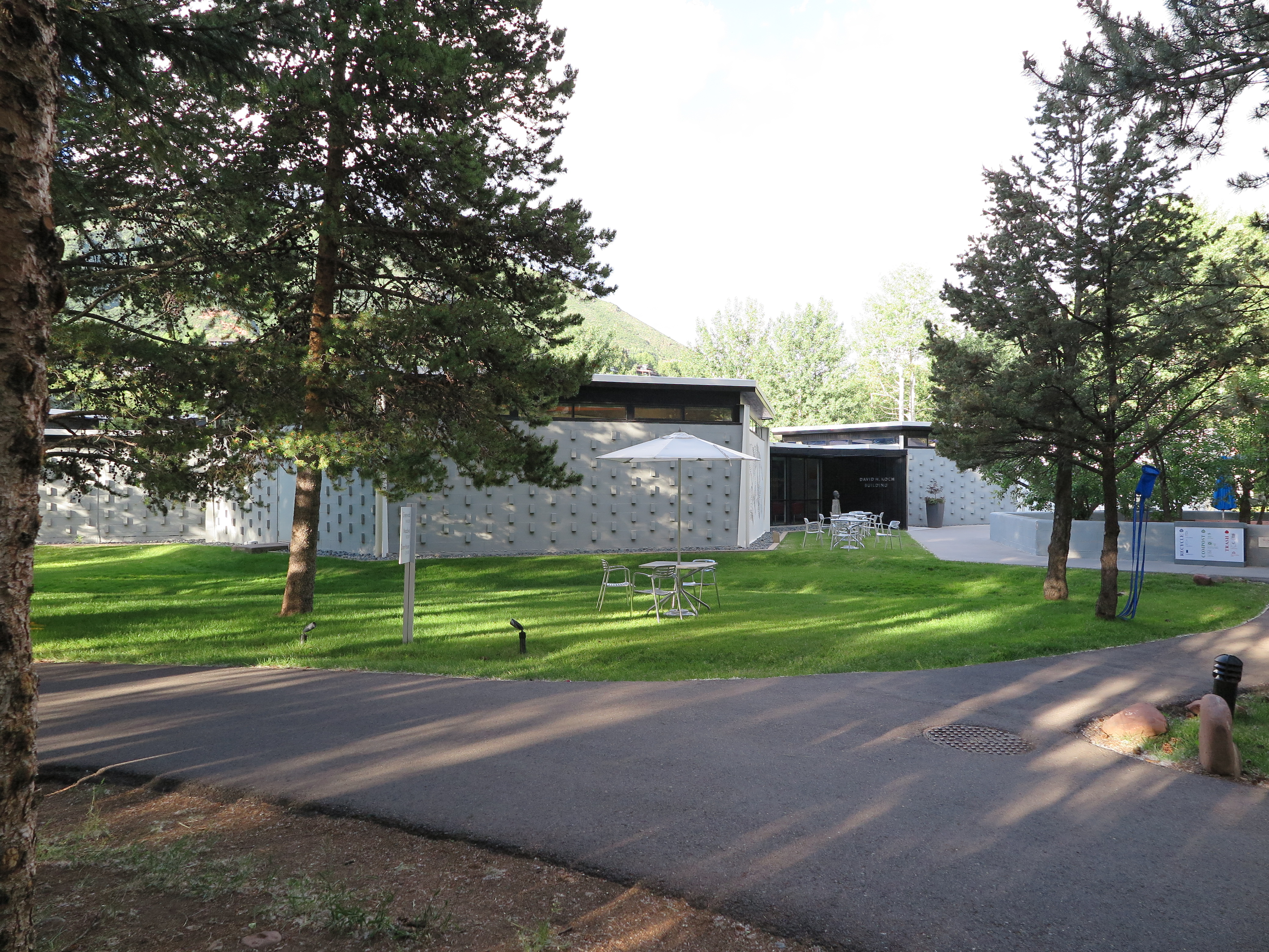 Picture from the Aspen Institute campus in Aspen, Colorado. David H. Koch Building at the Aspen Institute.